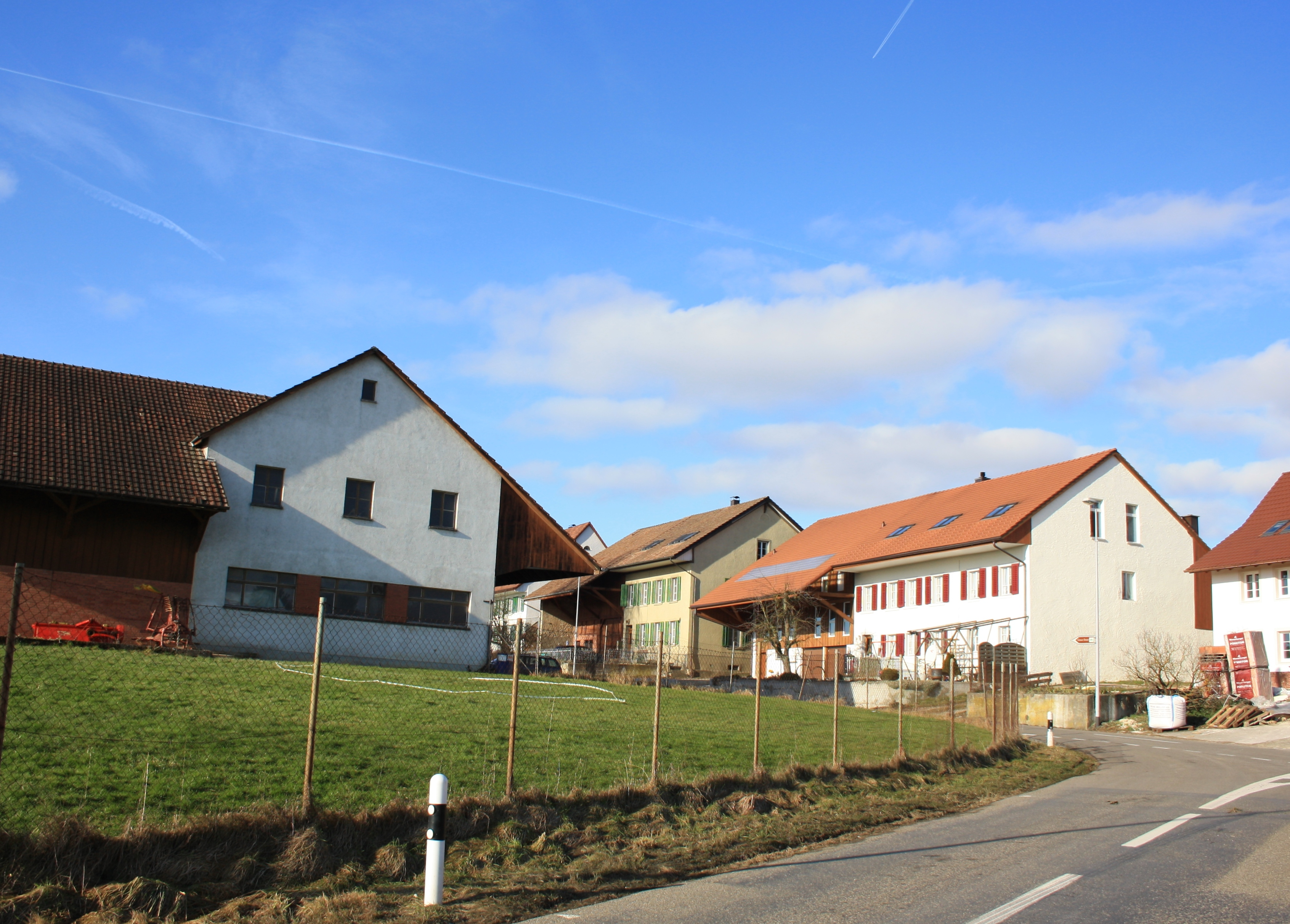 Oberbözberg